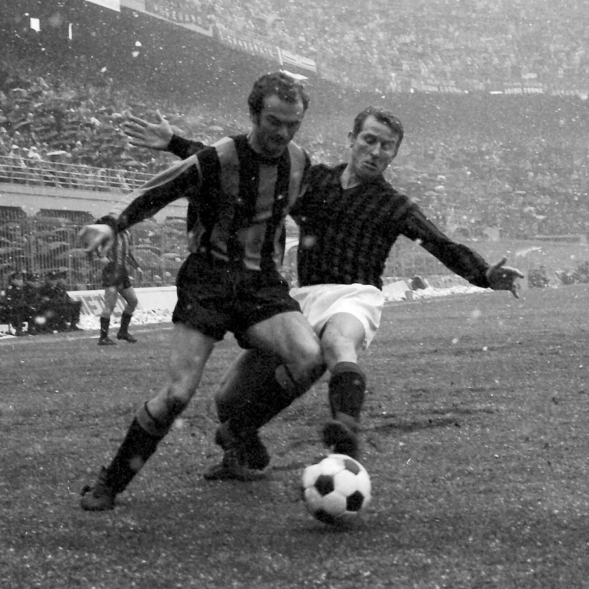 Inter Milan attacker Sandro Mazzola (left) and A.C. Milan defender Giovanni Trapattoni (right) tussle for the ball during A.C. Milan - Inter Milan of Italian League 1969-70 Serie A. Inter Milan eventually went on winning the game 1-0 with a goal scored by Mario Corso in the 80th minute.